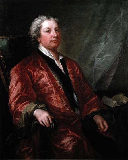 Self Portrait aged fifty 1725